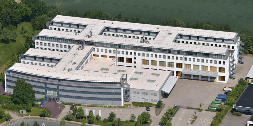 Basler AG Headquarters (2013)